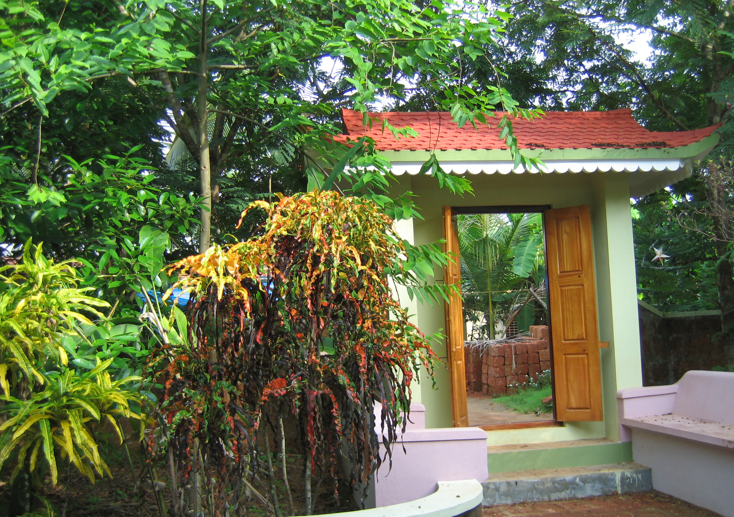 കണ്ണൂരില്‍ പേരാവൂരിലെ ഒരു വീട്ടിലെ പടിപ്പുര